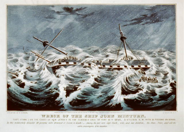 Wreck of the ship John Minturn: (Capt. Stark) on the coast of New Jersey in the terrible gale of Feby. 15th. 1846, 3 o'clock a.m. with 51 persons on board